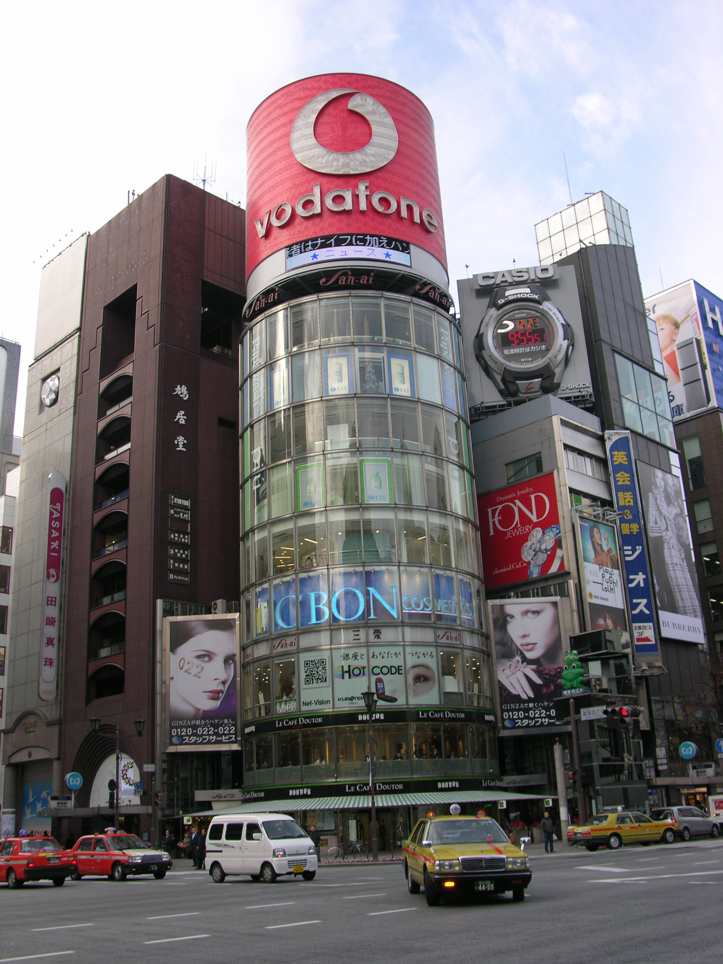 The most famous corner in Tokyo, the San'ai building in Yon Chome, Ginza, Tokyo, Japan. Author: Sergio Perez, December 2005. Nikon Coolpix 8 MPixel